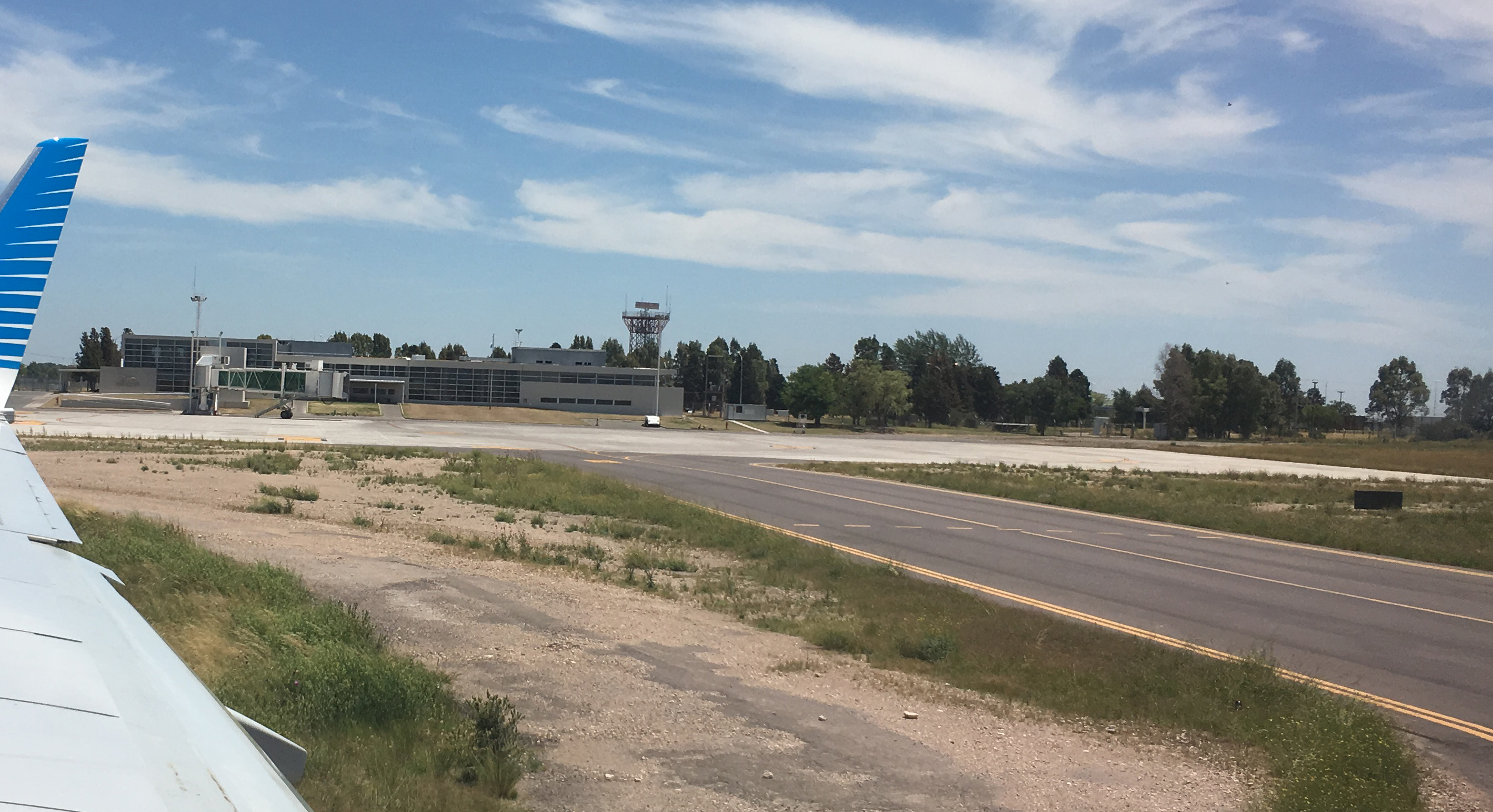 The terminal at Comandante Espora Airport in Bahia Blanca, Argentina viewed from Aerolineas Argentinas LV-FVM Boeing 737.